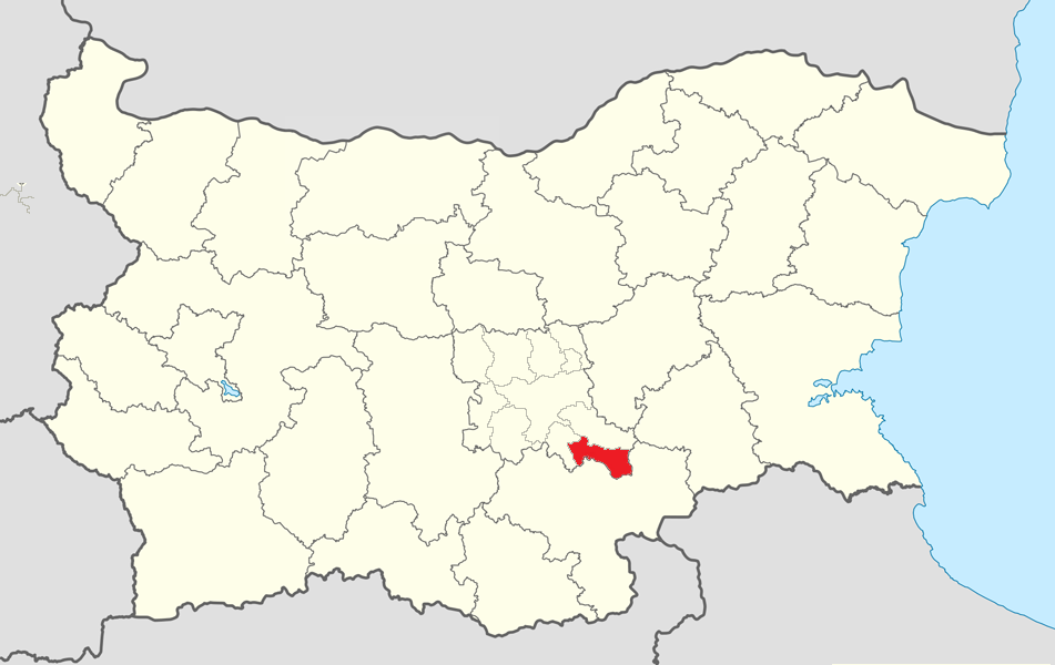 Location map of Galabovo Municipality within Bulgaria and Stara Zagora Province